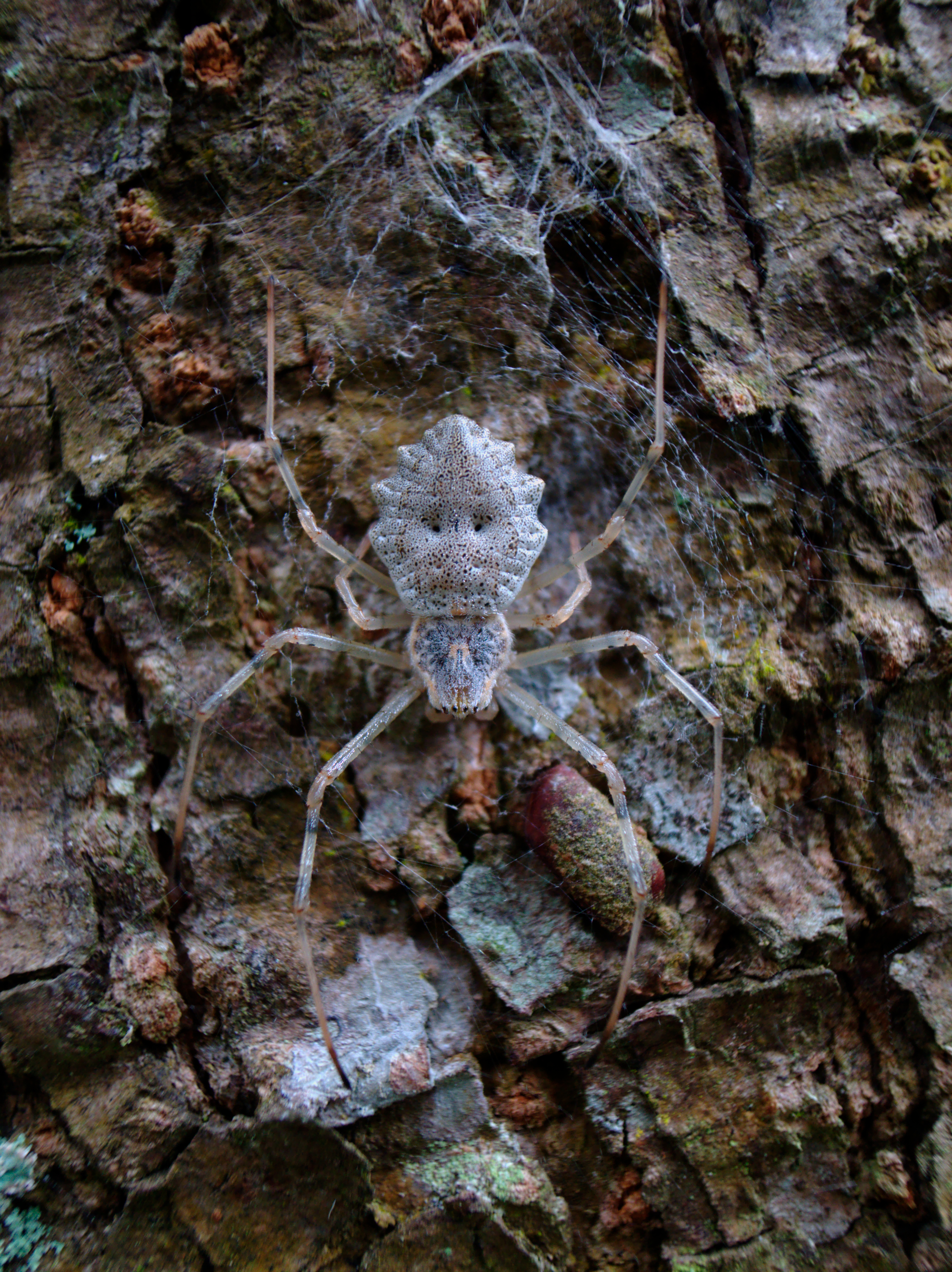 A subadult female Herennia multipuncta